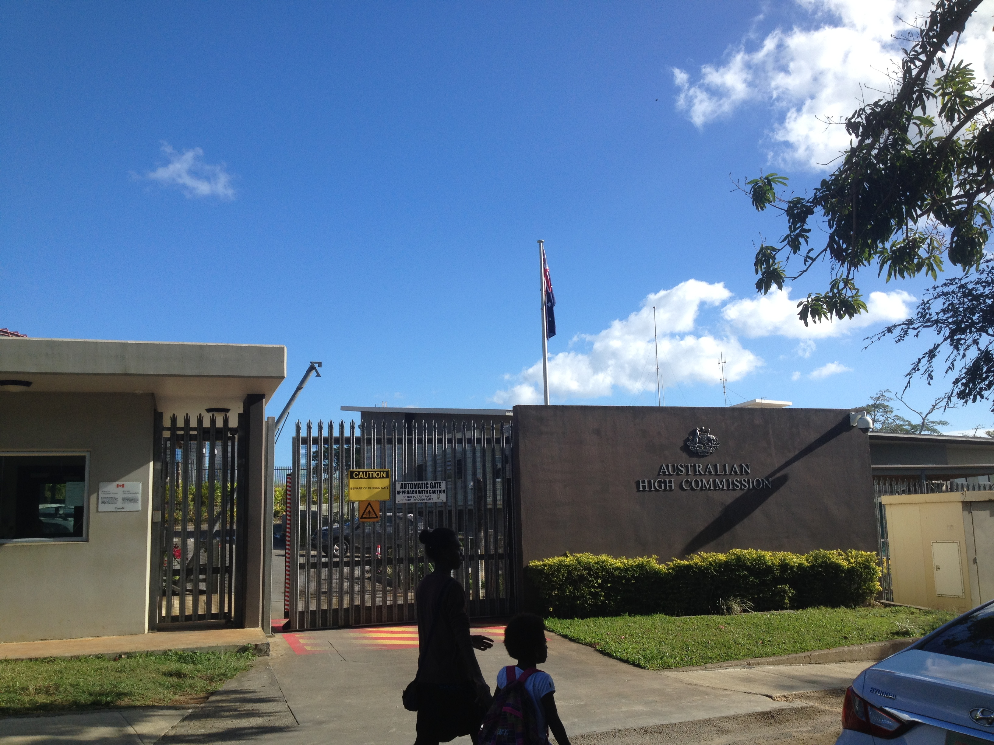 The front gate of Australian High Comission in Port Vila, Vanuatu. There is a small sign indicated that the Canadian High Comission (services) is also located here (under the Canada-Australia Consular Services Sharing Agreement)